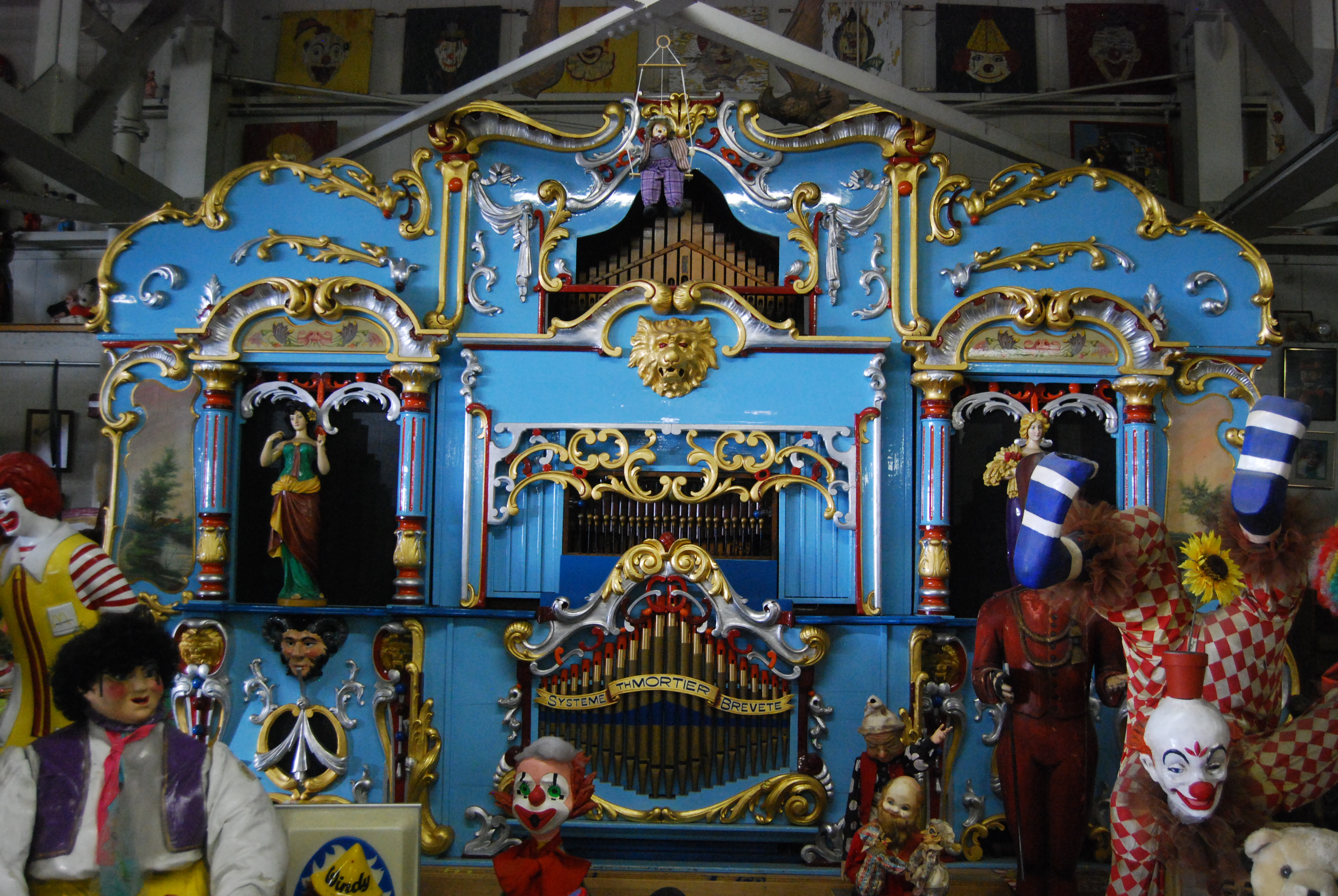 "The Emperor" is a century-old band organ on display at the American Treasure Tour.